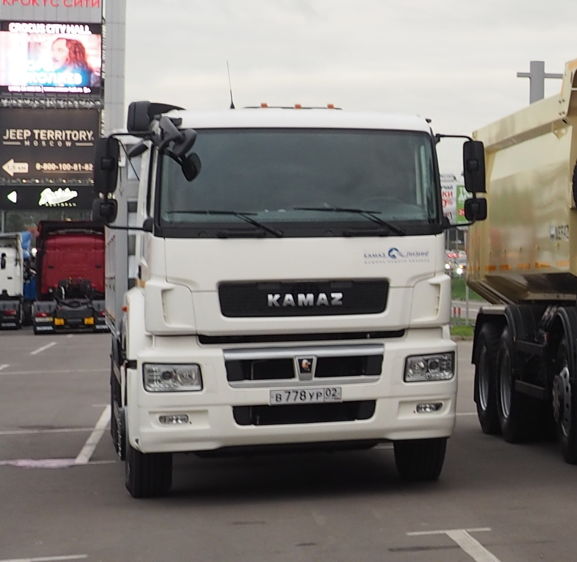 KamAZ-65207. Comtrans-2015